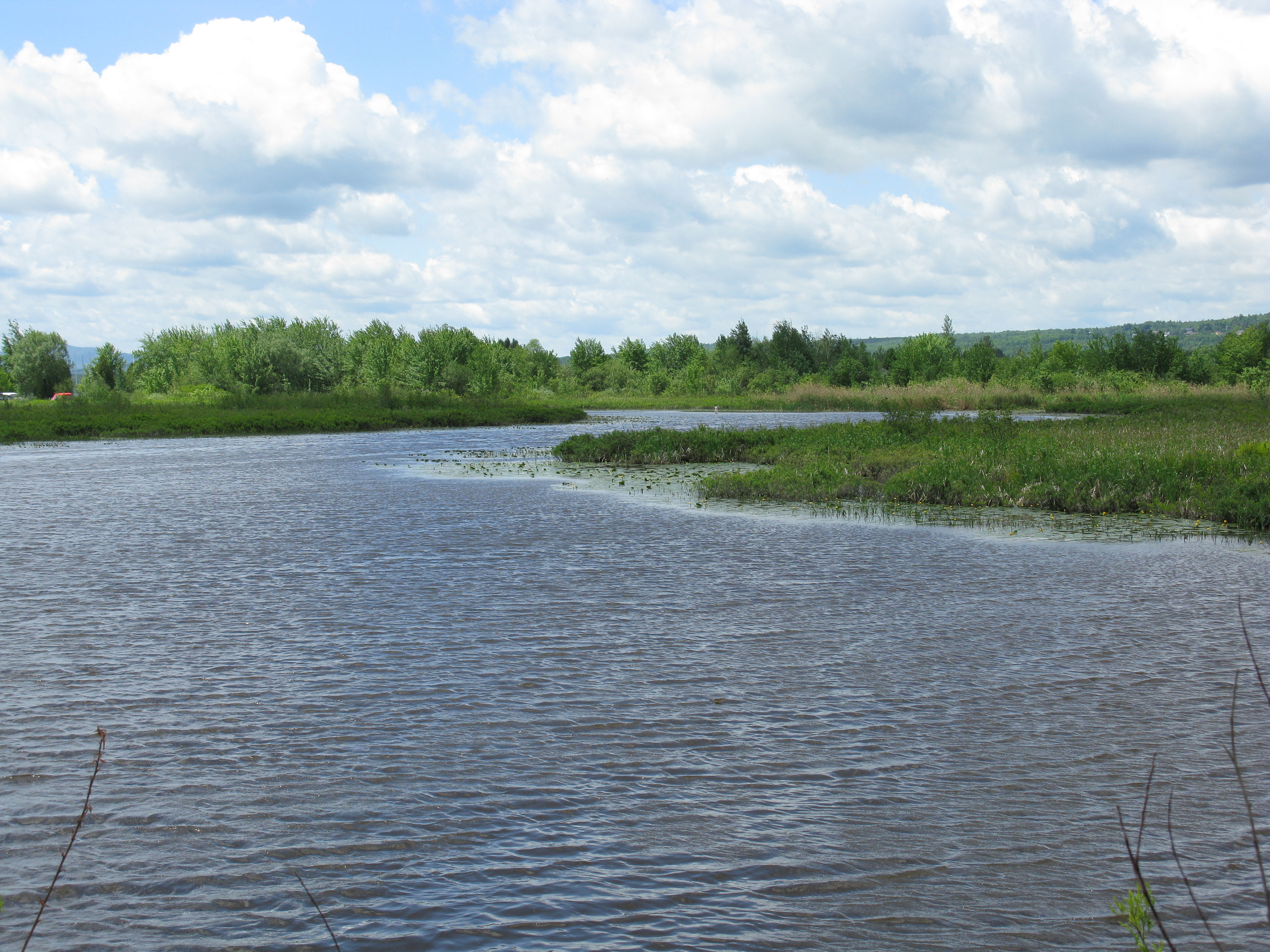 Cherry River seen from the bikeway behind the tourist office in Magog, Quebec, Canada.